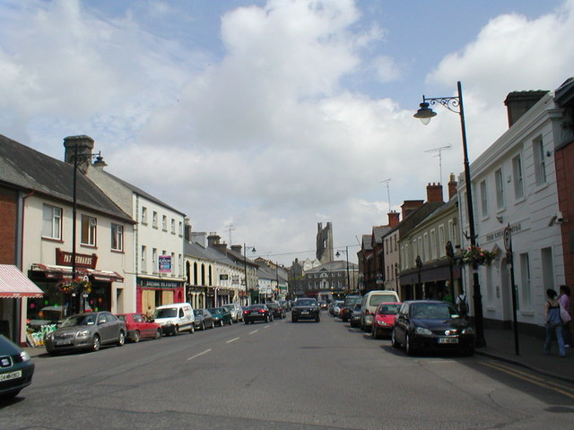 Town centre, Trim